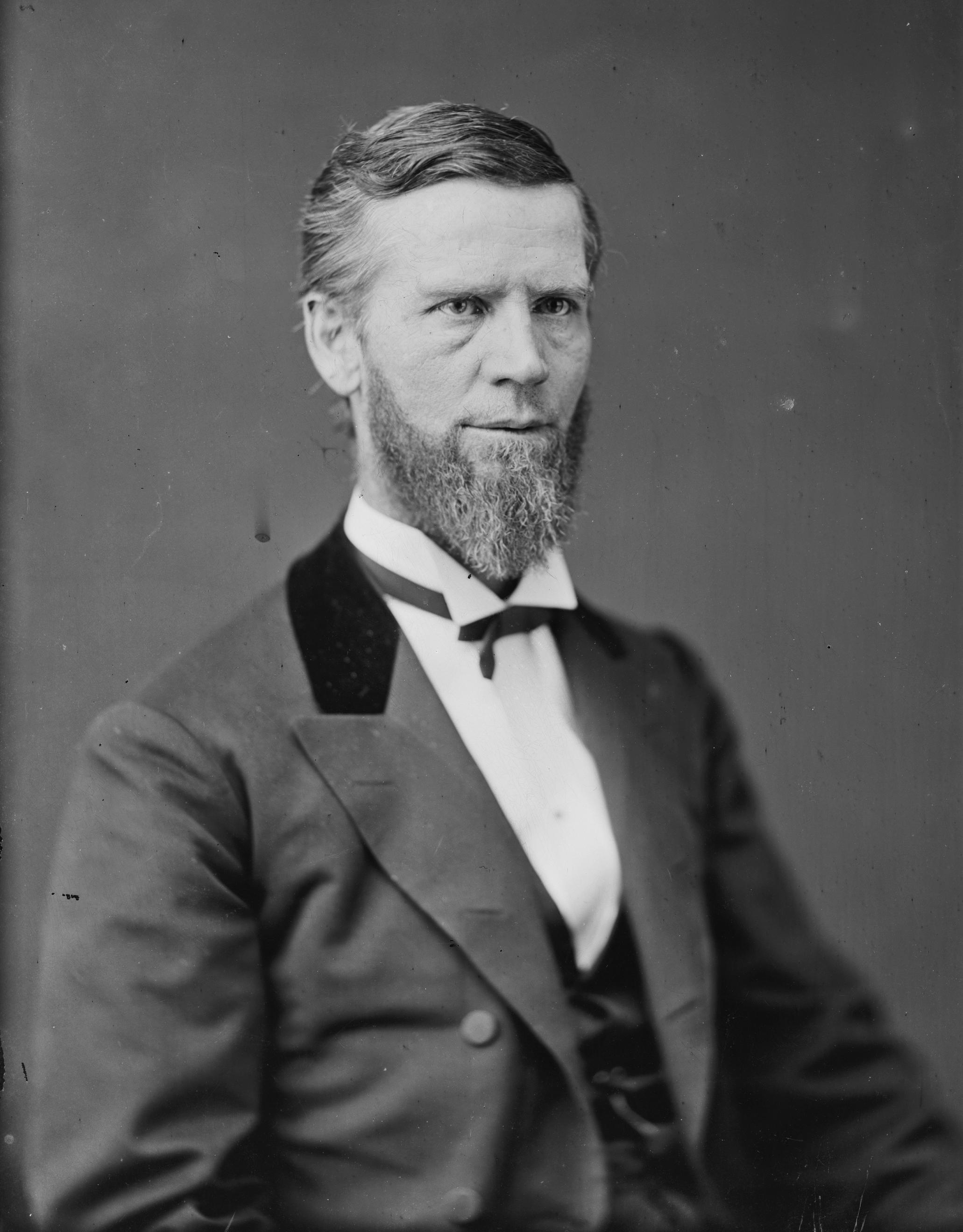 William A. Wallace. Library of Congress description: "Wallace, Hon. William A. of Pa."